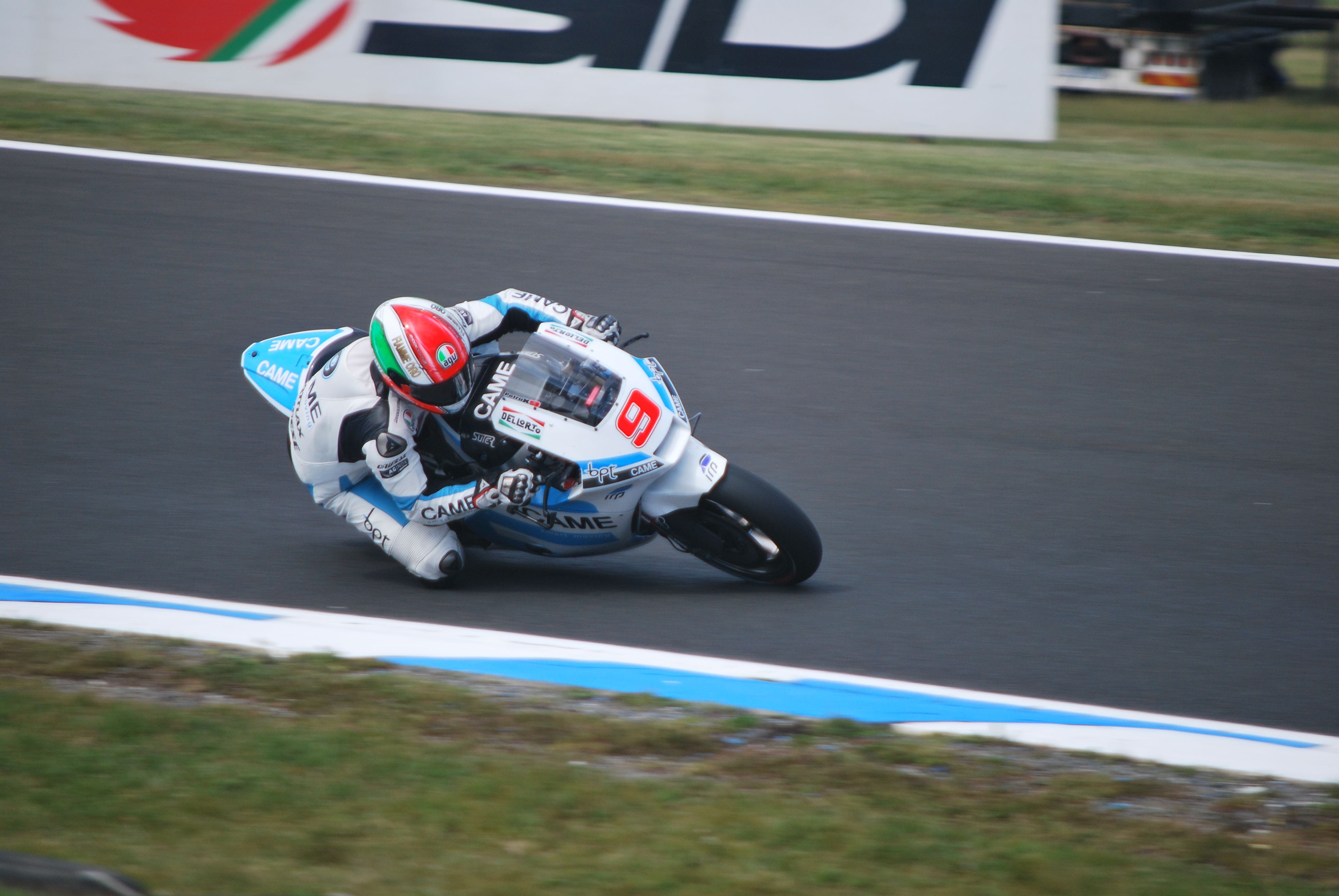 Danilo Petrucci at Phillip Island in 2012.